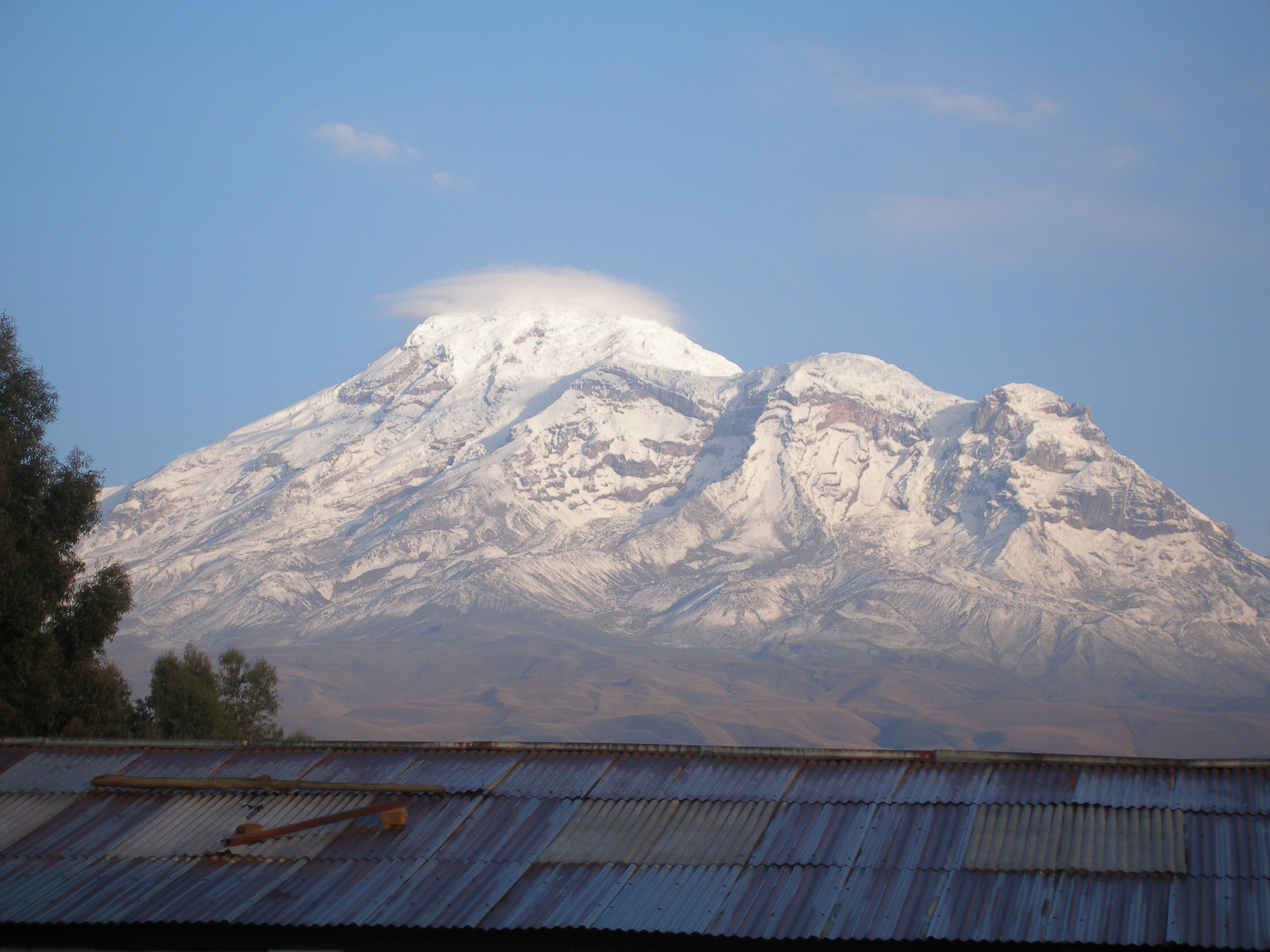 A picture of the Chimborazo volcano in Ecuador.